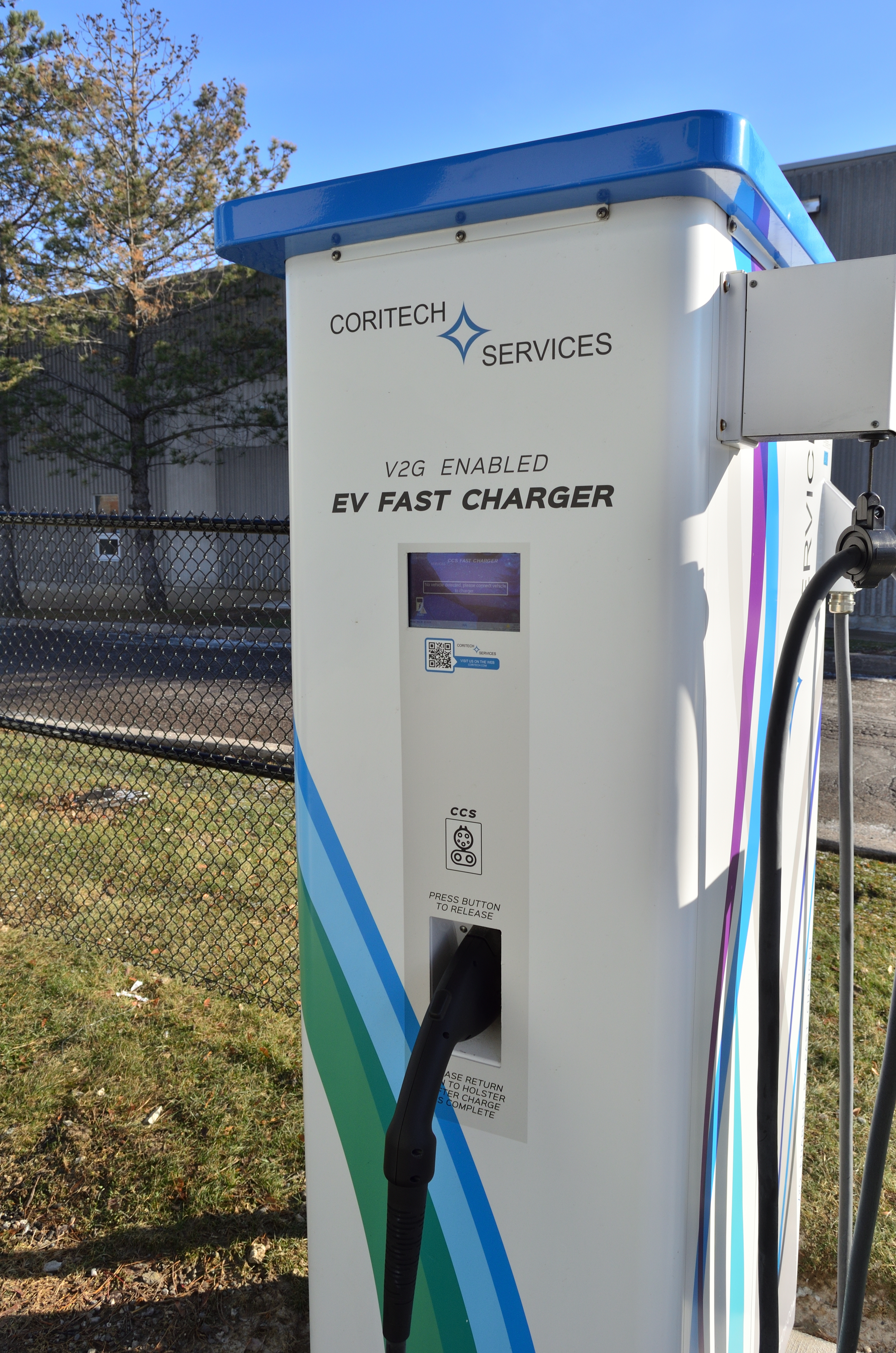 A V2G enabled EV fast charger